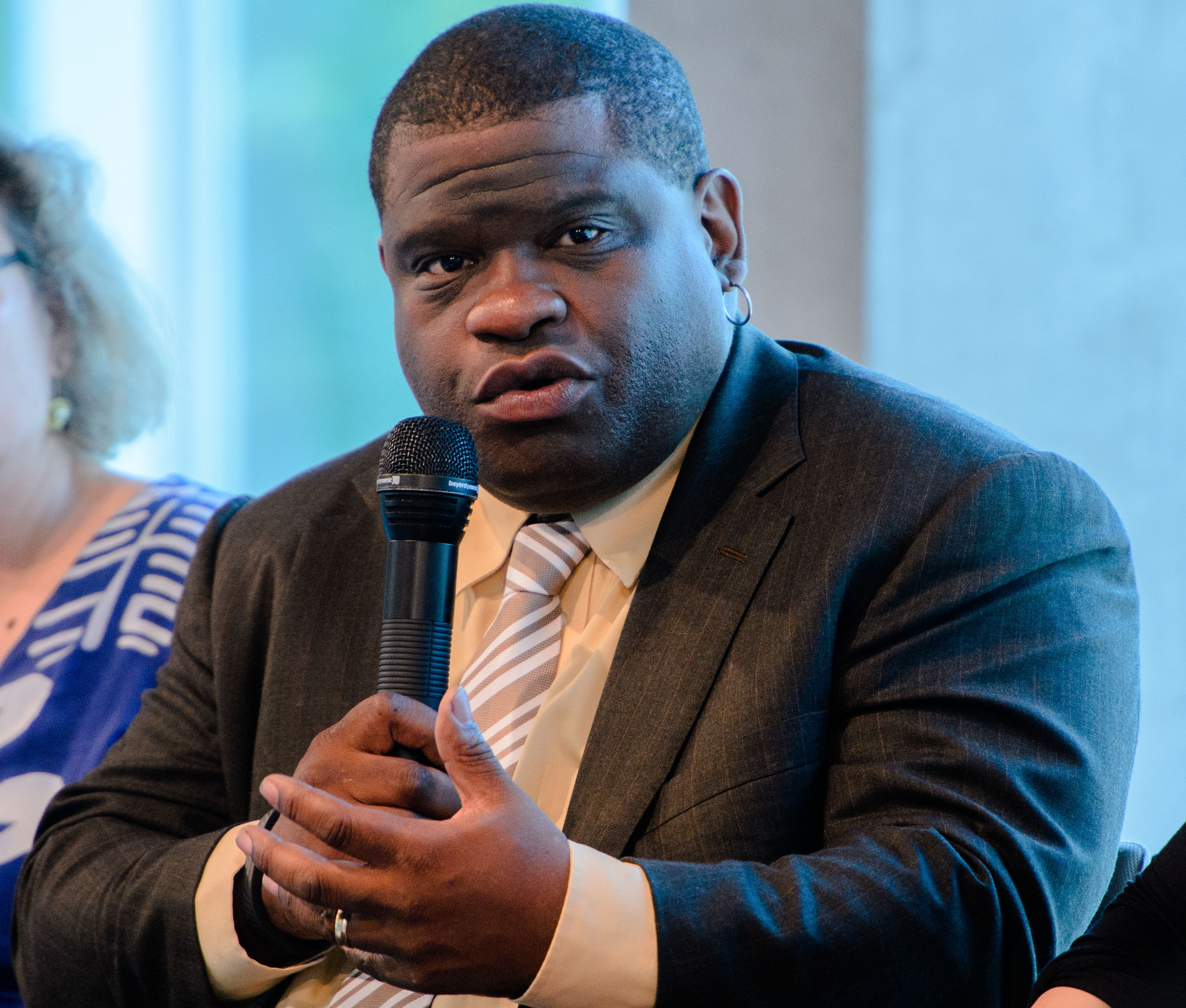 Gary Younge (The Guardian, Journalist and Author), Foto